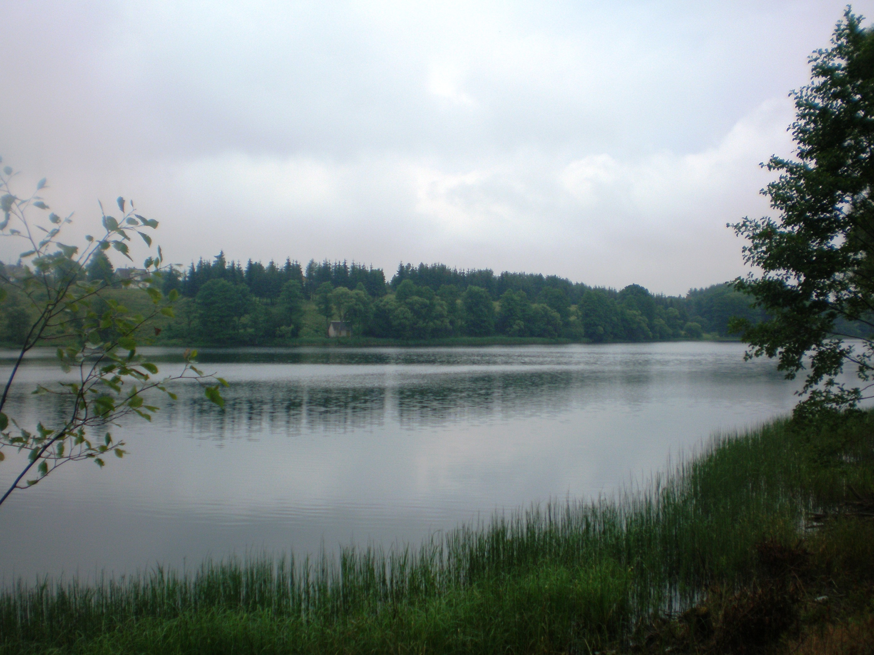 Taurgnas Lake, Utena district. The deepest lake in Lithuania